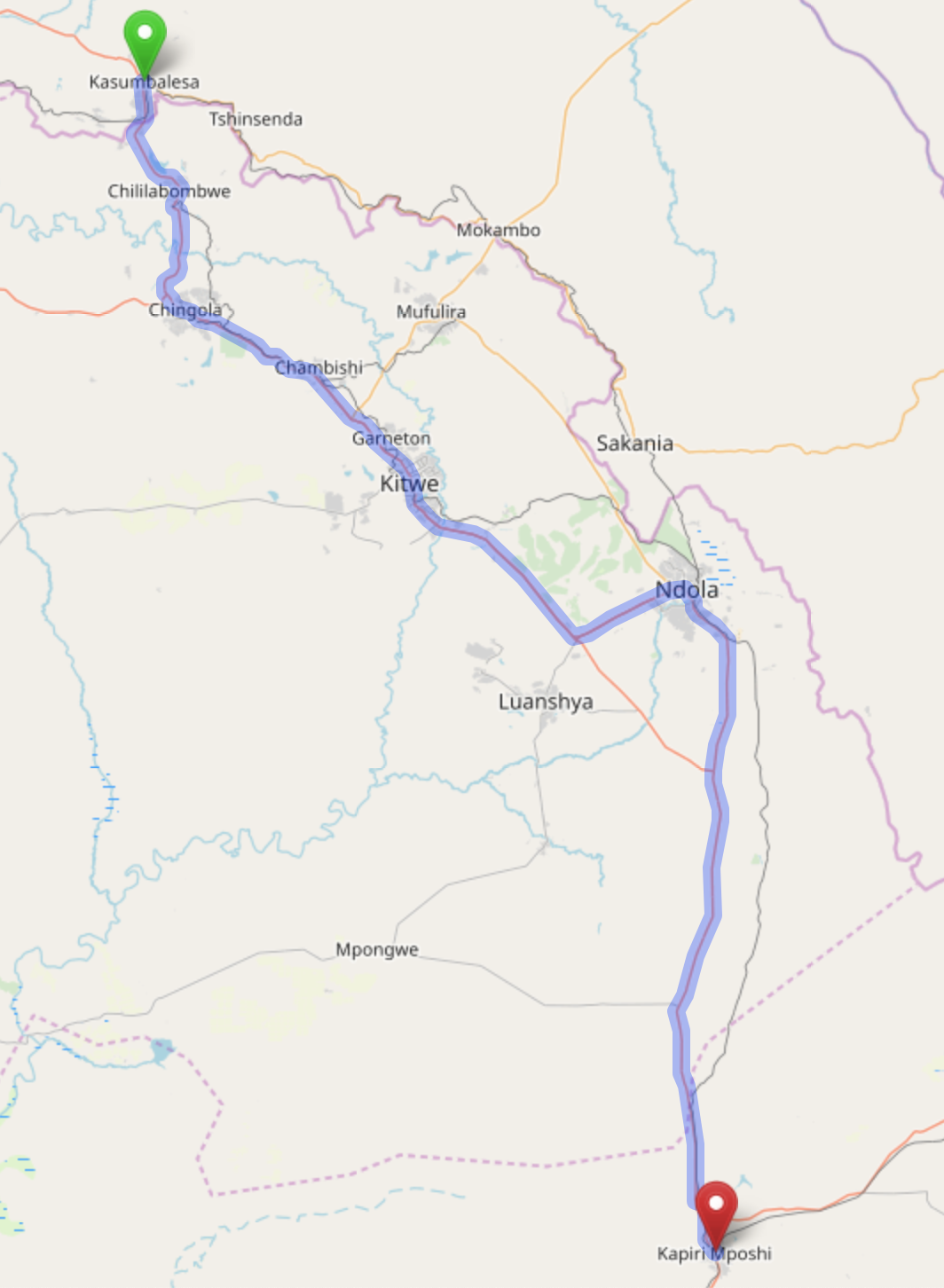 Map of the T3 road in Zambia This map of Zambia was created from OpenStreetMap project data, collected by the community. This map may be incomplete, and may contain errors. Don't rely solely on it for navigation.